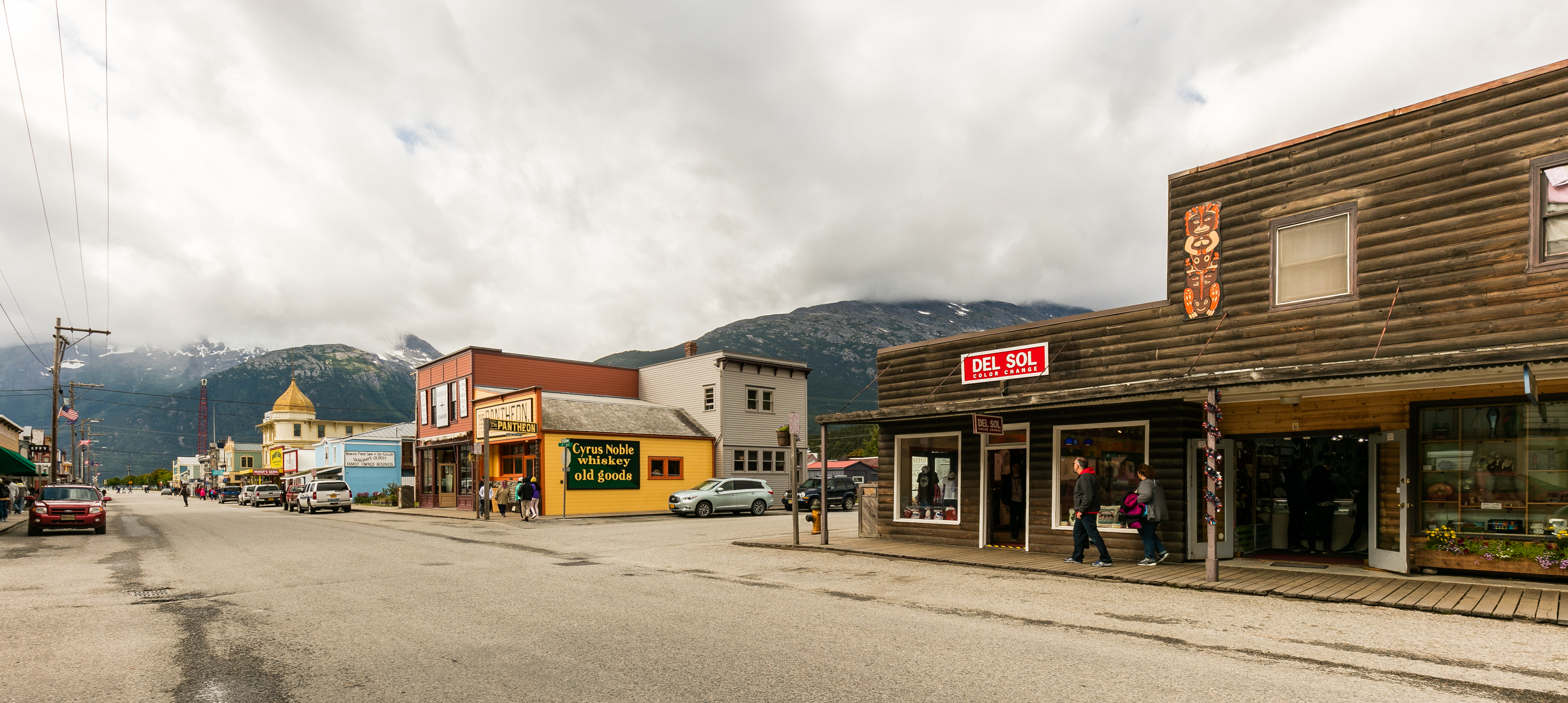 Skagway Historic District, Alaska, United States